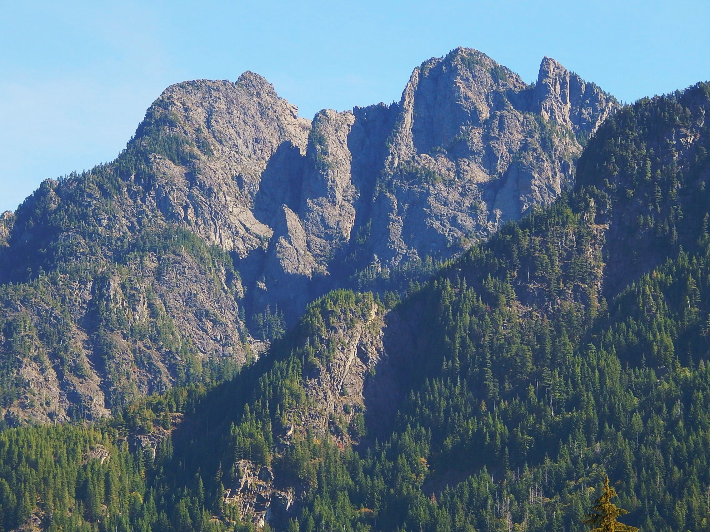 Russian Butte seen from bridge over Middle Fork Snoqualmie River Road